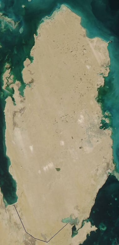 Satellite image of Qatar in January 2003.